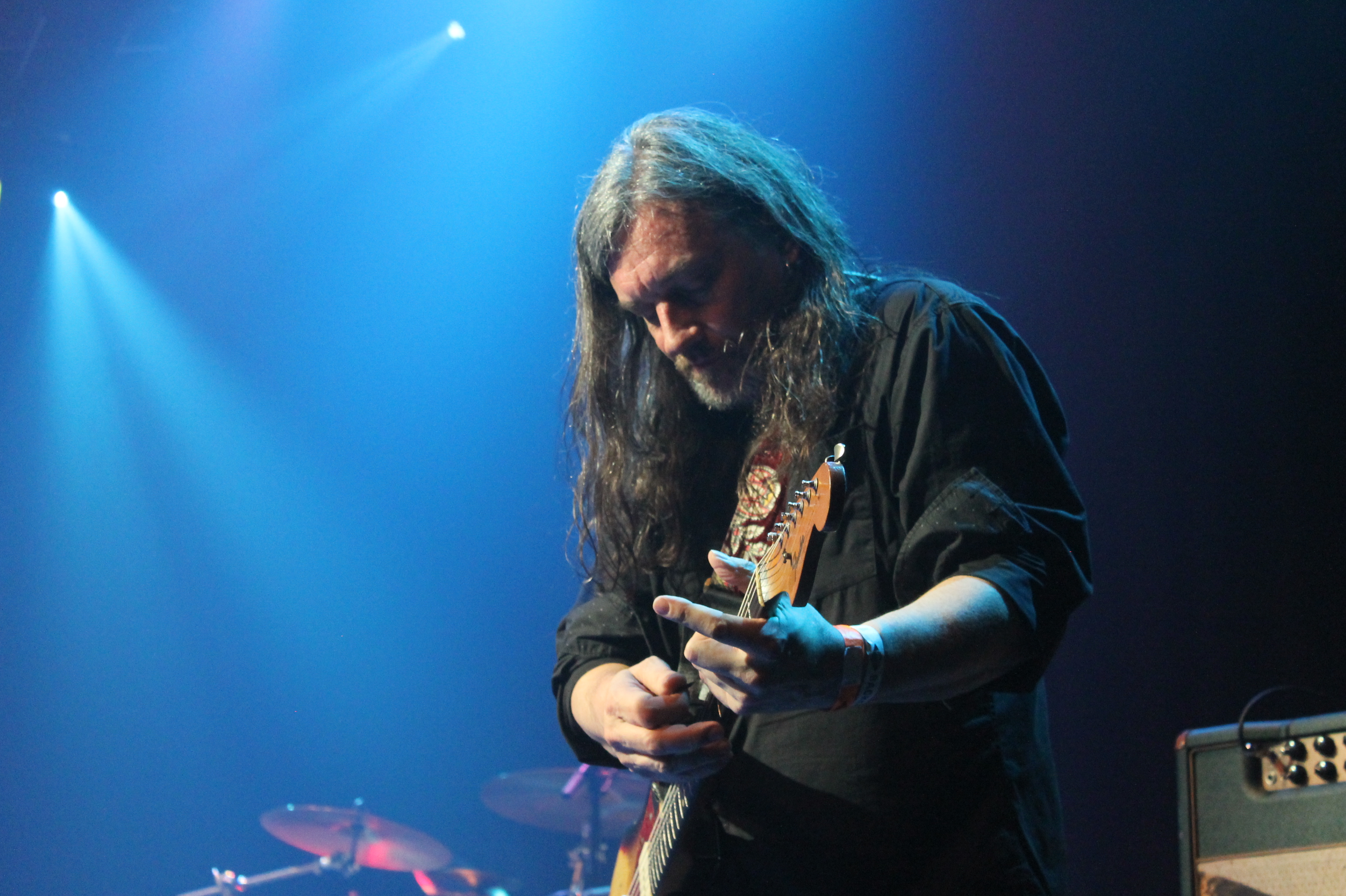 Marty Willson-Piper with Anekdoten, iO pages festival, NL